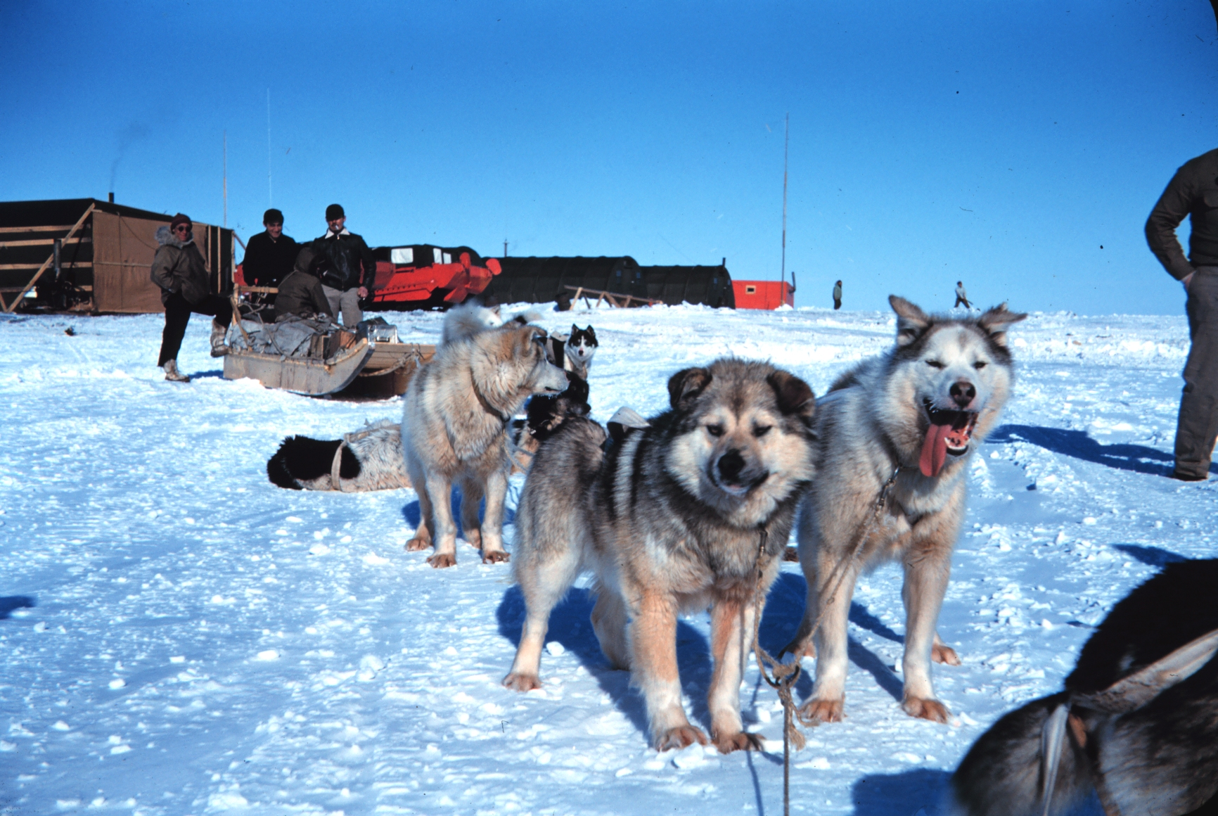 A fine team of sled dogs at Tigvariak Island - Alaska, Tigvariak Island, North Slope